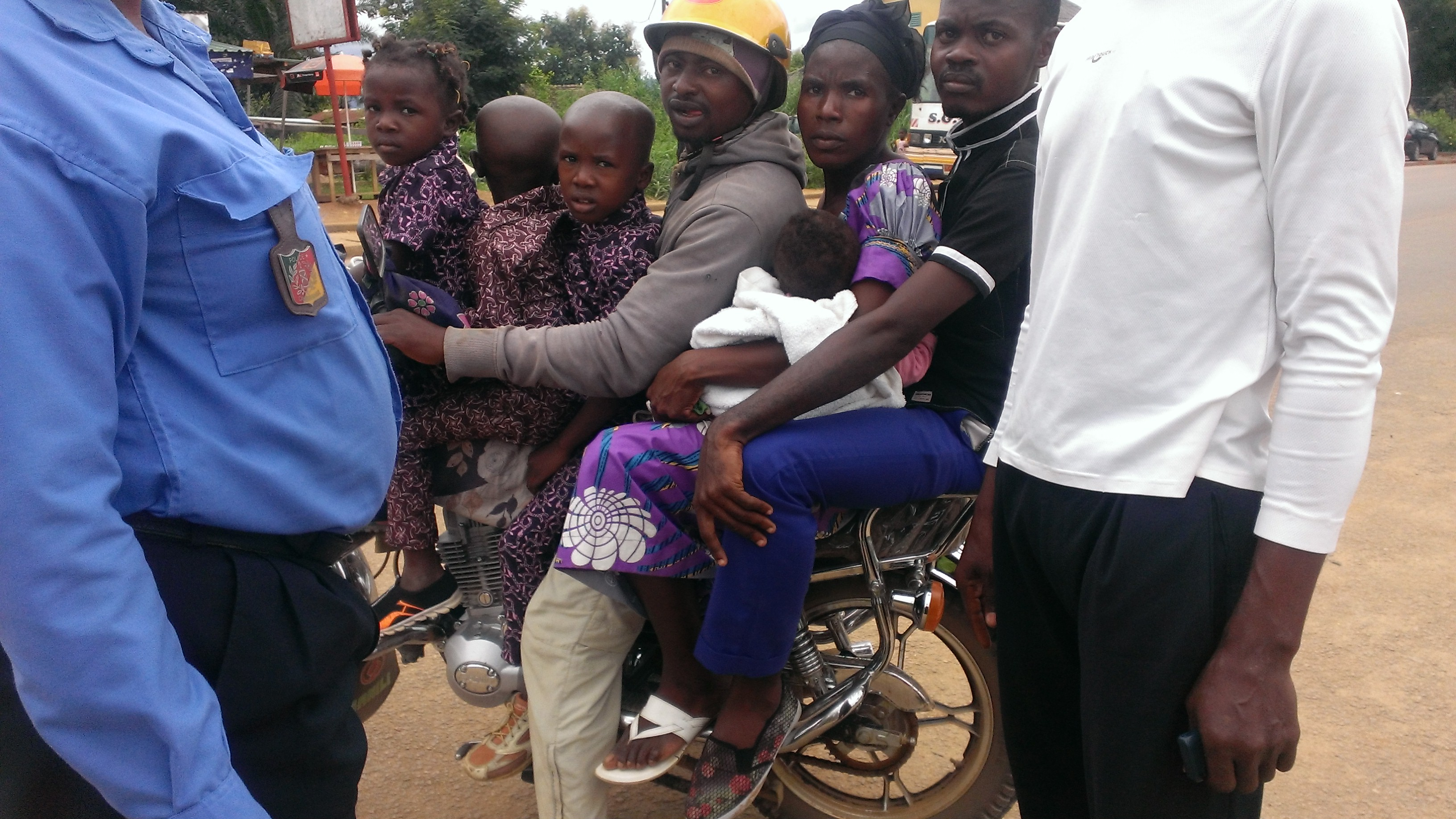 This is an image with the theme "Play" from: Cameroon